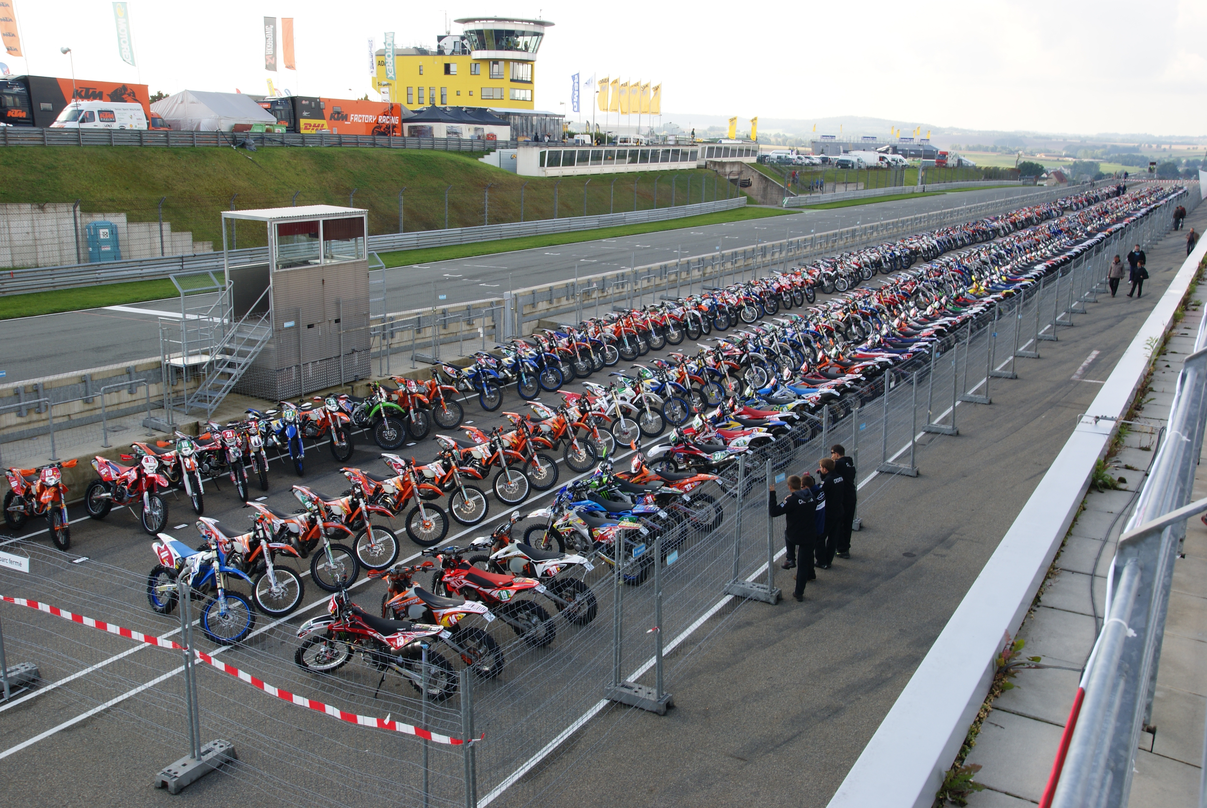 The making of this document was supported by the Community-Budget of Wikimedia Germany. 87. ISDE Saxony 2012 Parc Ferme